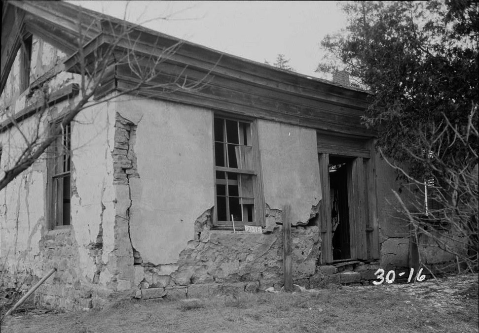 William Maxson House, Springdale. This is the house where John Brown stayed in 1857. Since demolished.